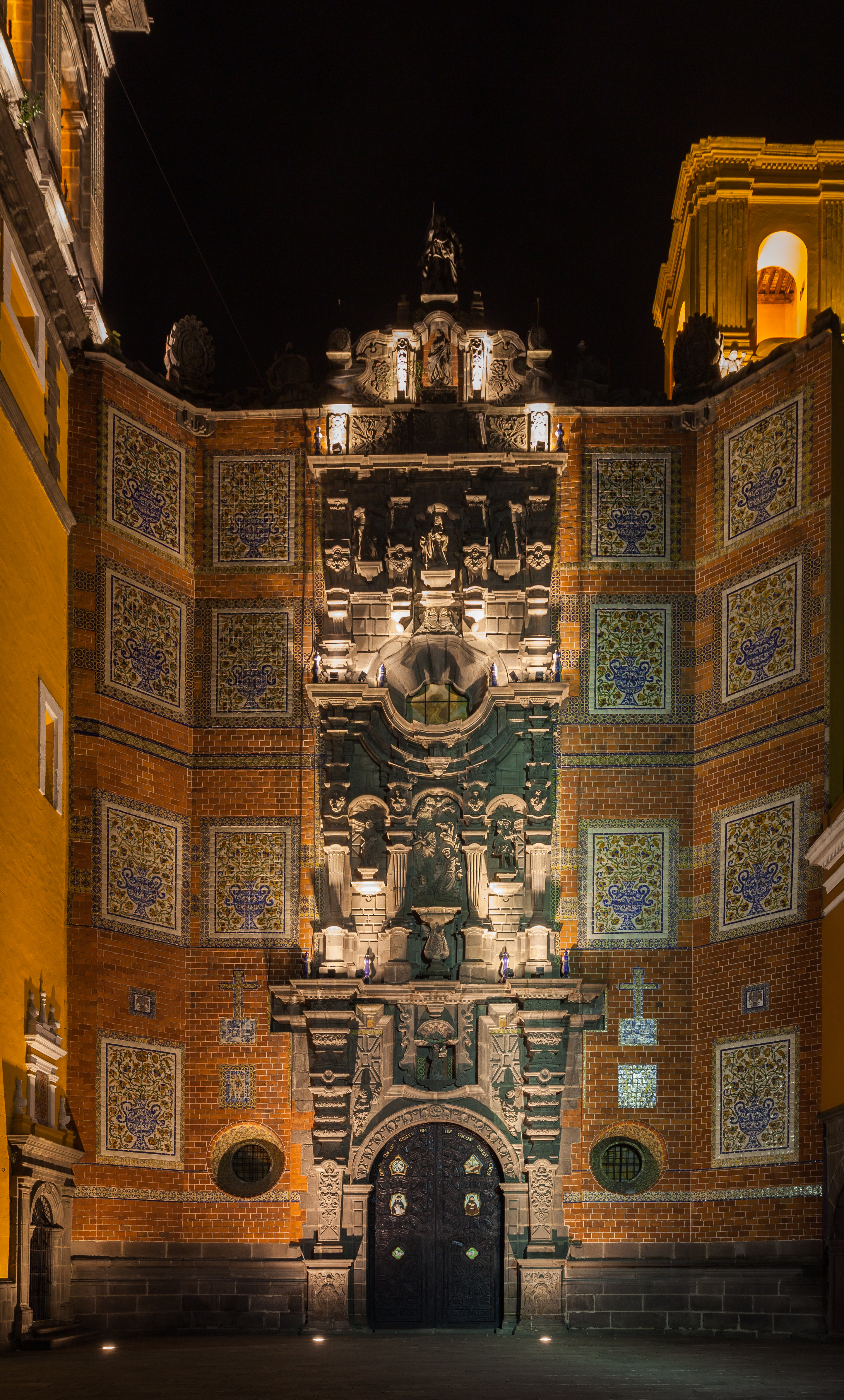 San Francisco church, Puebla, Mexico